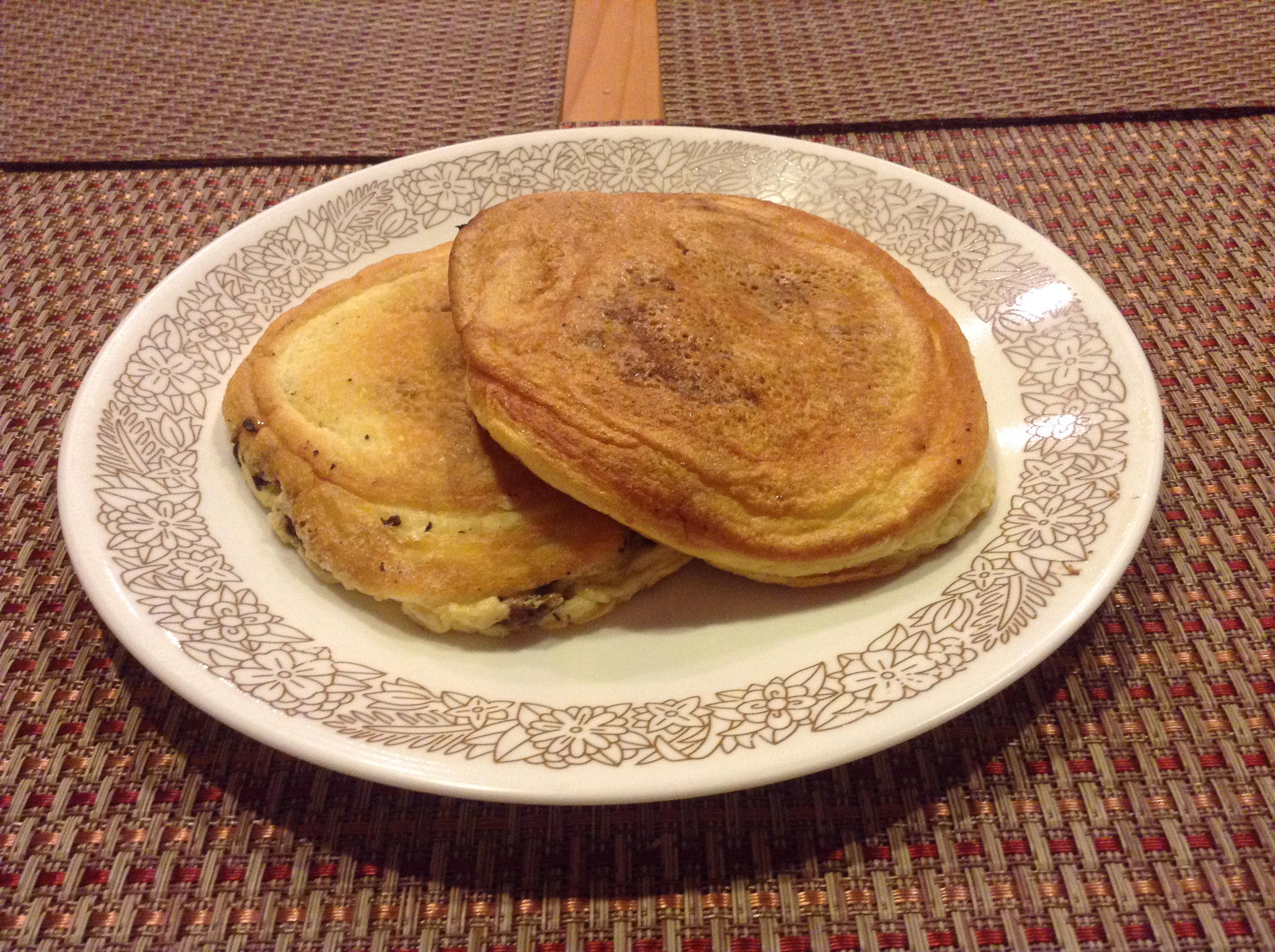 Torta Gulang